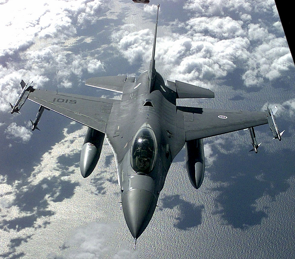 An F-16A from the Portuguese Air Force prepares to refuel from a KC-10 while deployed to a forward location in the European theatre on March 19th, 1999. This mission is in direct support of Joint Task Force 'Noble Anvil'.